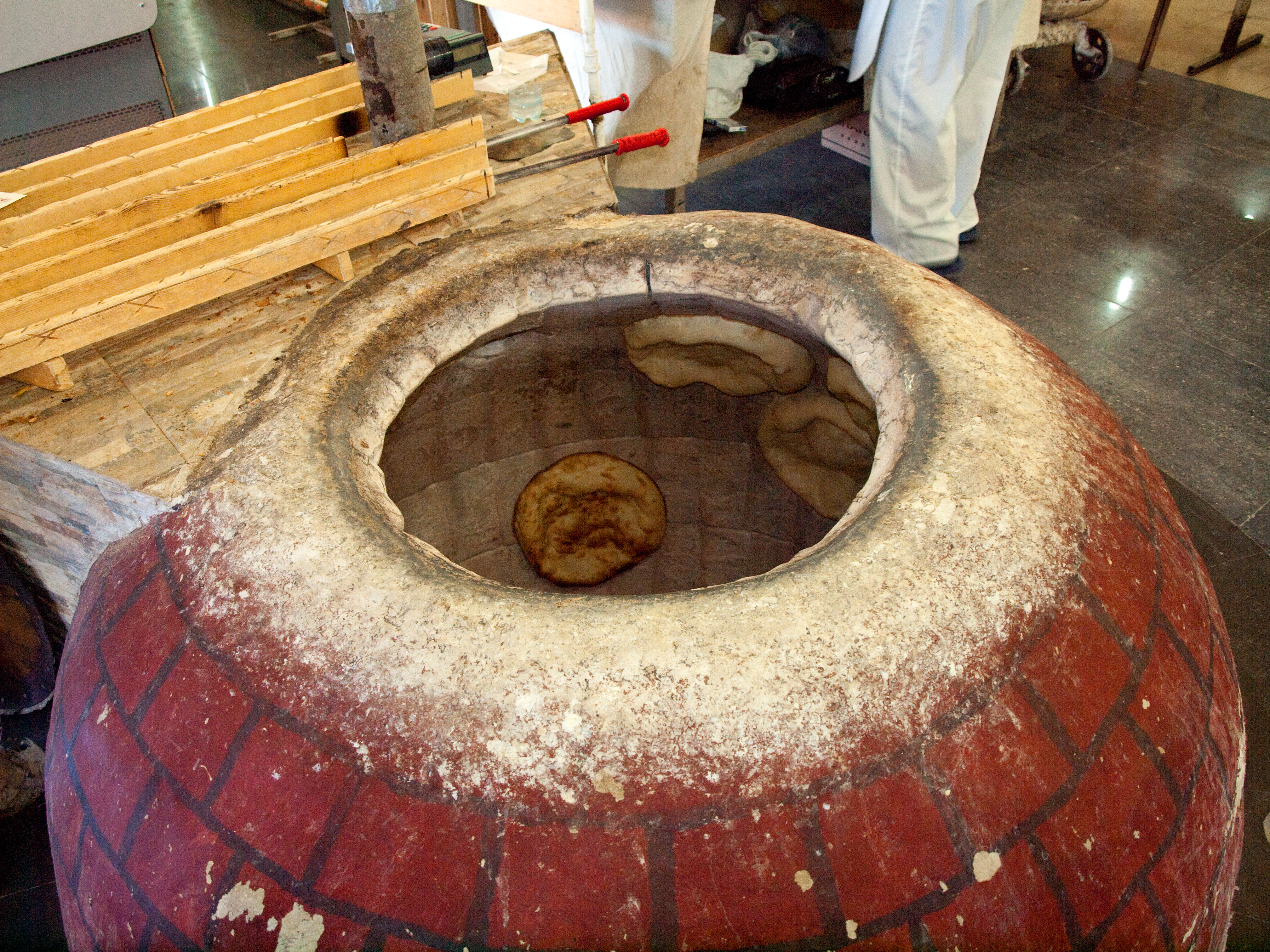 Matnakash in tonir